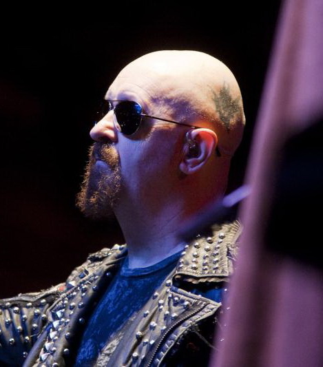 Halford Live @ Carioca Club - 24/10/2010 - São Paulo, Brasil